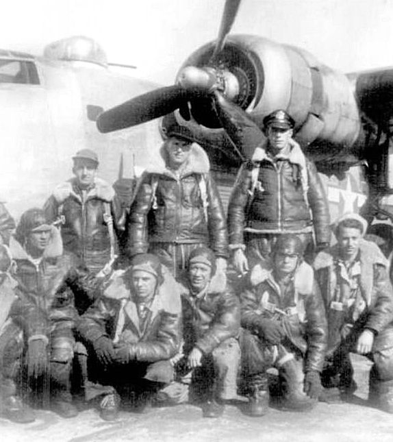 Graduation photo of a B-24 Liberator combat crew from Dalhart AAF, Texas